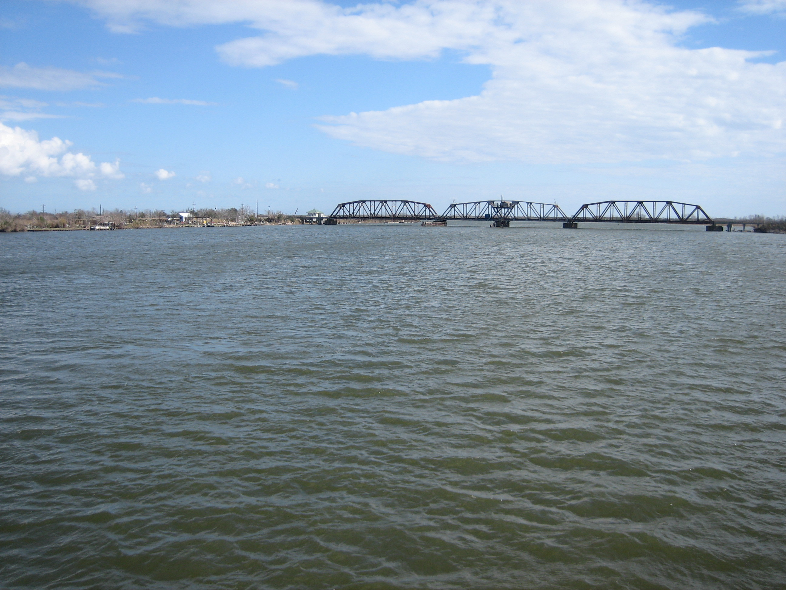 Chef Menteur Pass, view from the auto bridge looking towards the railroad bridge.